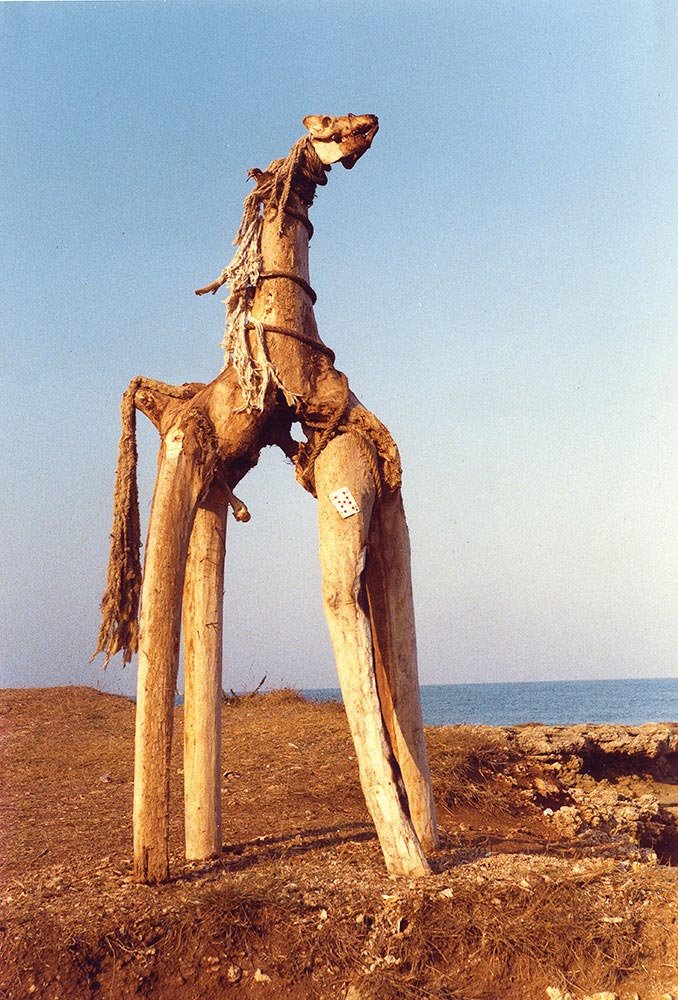 Lubo Kristek: Sea Horse, 1986, asemblage, height: 260 cm